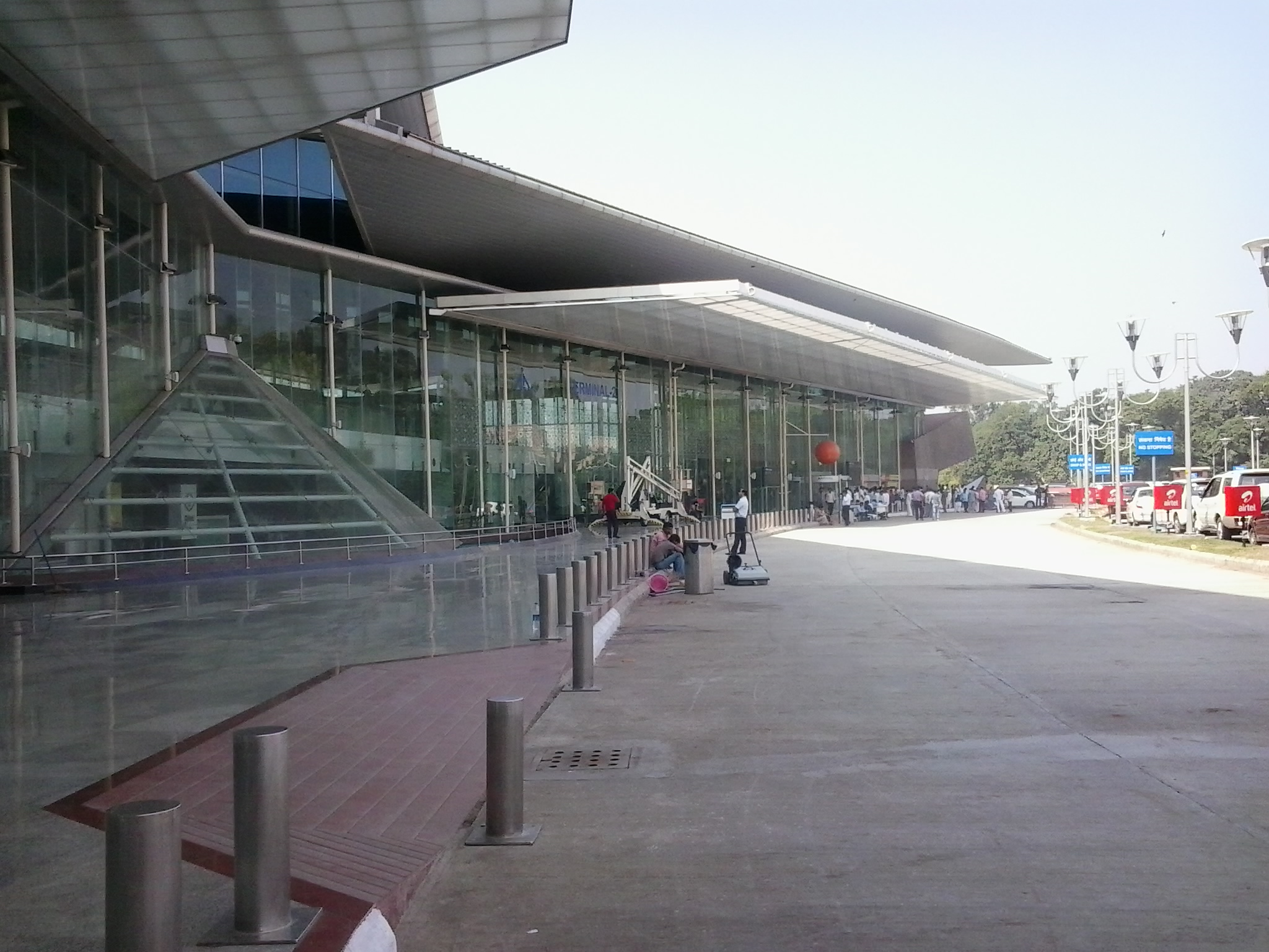 Integrated terminal-2 at Amausi